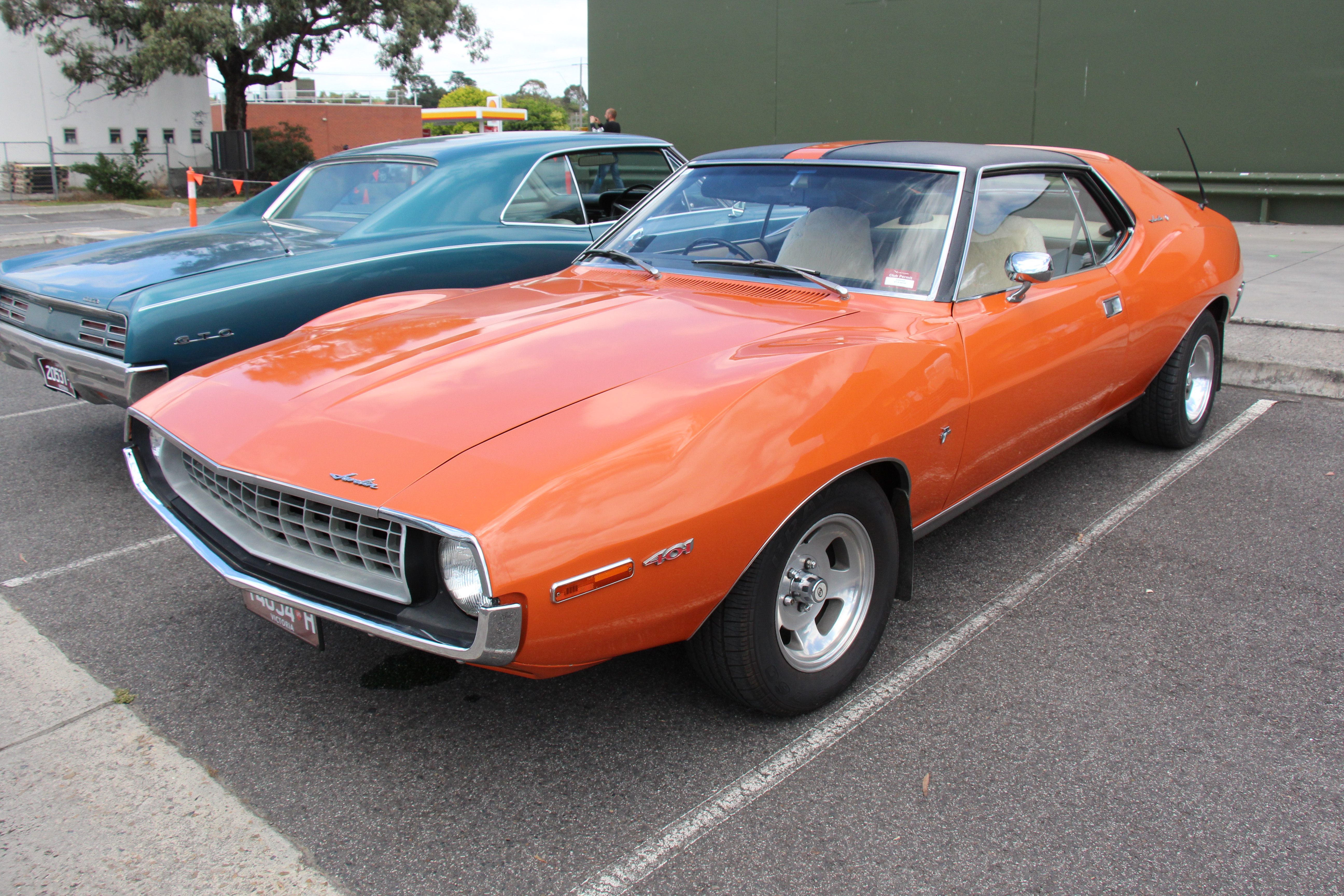 A 'Pony' Car built from 1967 to 1974 only available as a 2 door, 4 seat Hardtop. (the 2 seater was the AMX). the 1st generation was 68 and 69, then a redesign in 1970, then the 2nd generation, 71-74 The 2nd generation became longer, lower, wider, and heavier than its predecessor, it also got integral roof spoiler and sculpted fender bulges. Also from 1971, the AMX was no longer available as a two-seater. It evolved into a premium high-performance edition of the Javelin, they got a fiberglass full-width cowl induction hood, as well as spoilers front and rear. The Go Package was also available; extra gauges, better suspension and brakes, LSD, T-stripe hood decal, and a blacked-out rear taillight panel The grille for 1971 had fine horizontal lines. For 1972 it got a new egg crate grille, the AMX version continued with the flush grille The 1973 Javelin got another new grille, mesh this time, although the AMX grille remained the same again. Australian Motor Industries (AMI) assembled right hand drive versions of both the Javelin in Victoria, Australia from CKD kits. The right hand drive dash, interior and soft trim, as well as other components were locally manufactured. The cars were marketed under the historic Rambler name. Engine 232 cu in 6 cyl or 401 cu in V8